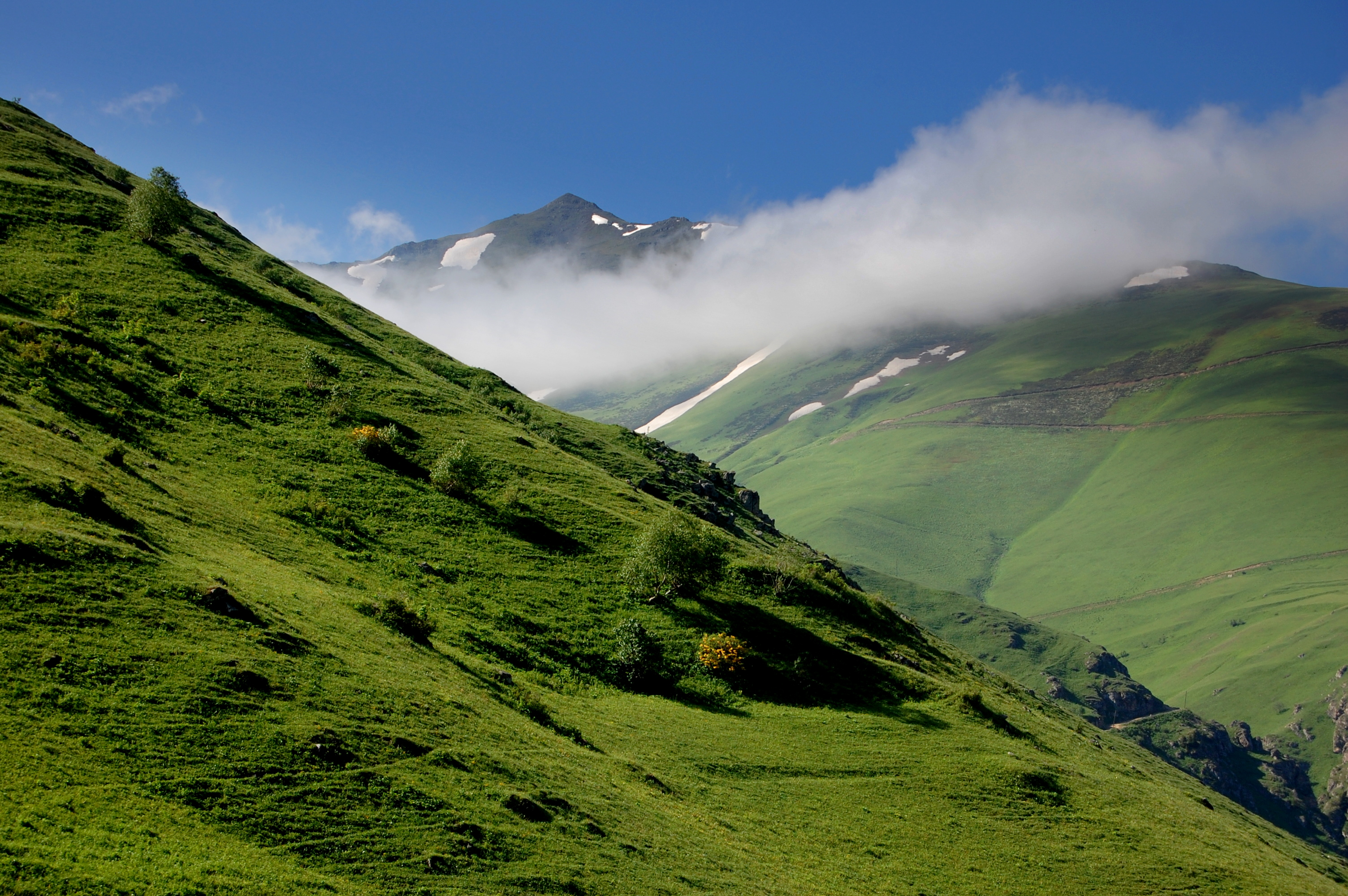 Anzer plateau (aka, Çiçekliköy plateau), is one of the uplands in the Blacksea region of Turkey. It has some peaks reaching an altitude of 3,000 m. The "Anzer honey", famous with its curative powers, is produced here. A small village is seen in the middle of the picture.